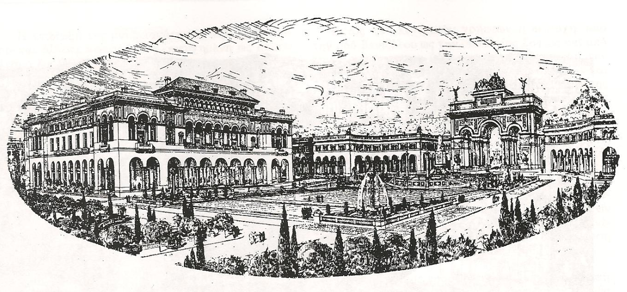 Ernest Hebrard's proposal for a Civil Plaza in Thessaloniki, Greece.